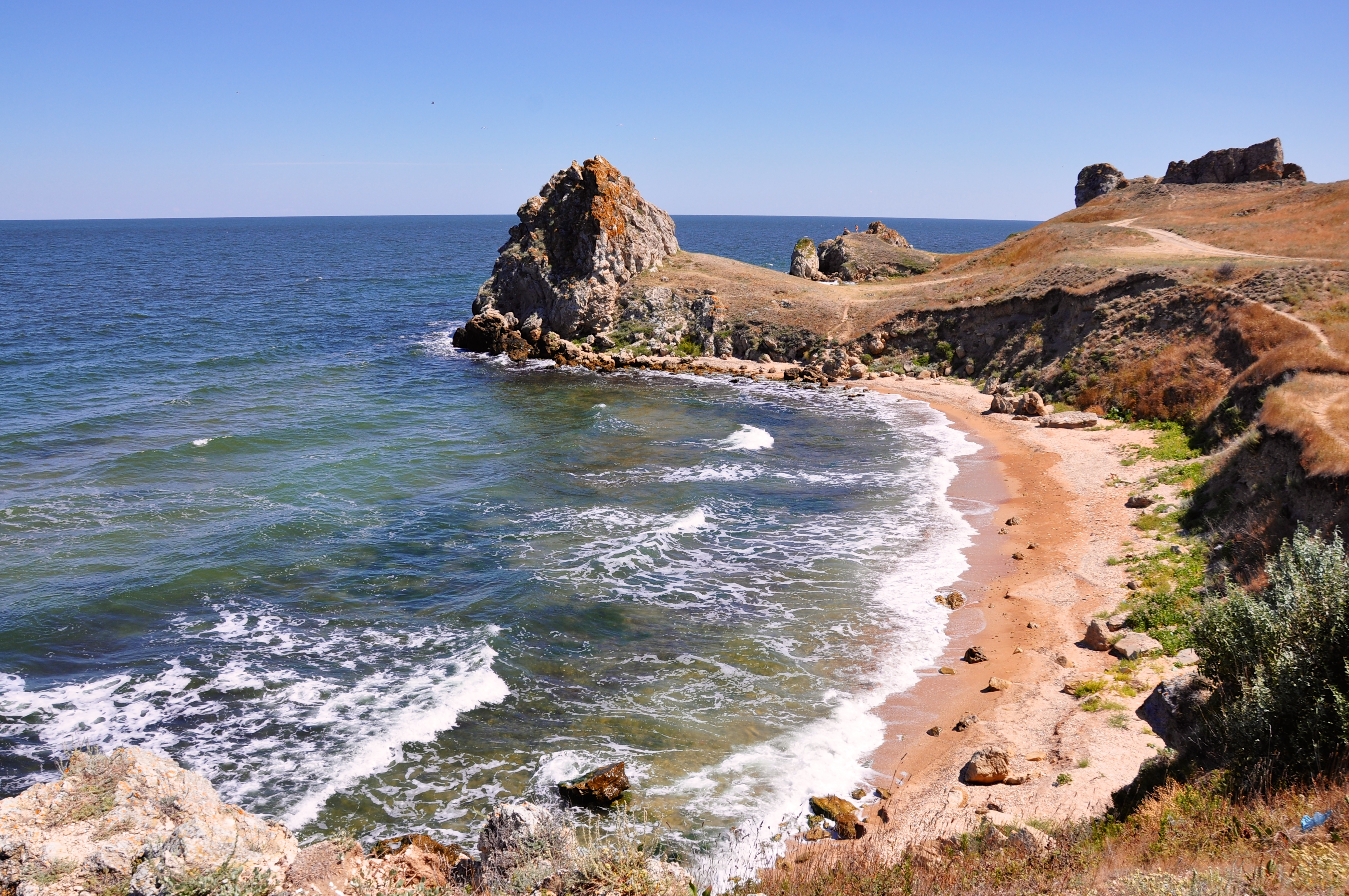 Cape Zyuk (Kerch Peninsula)